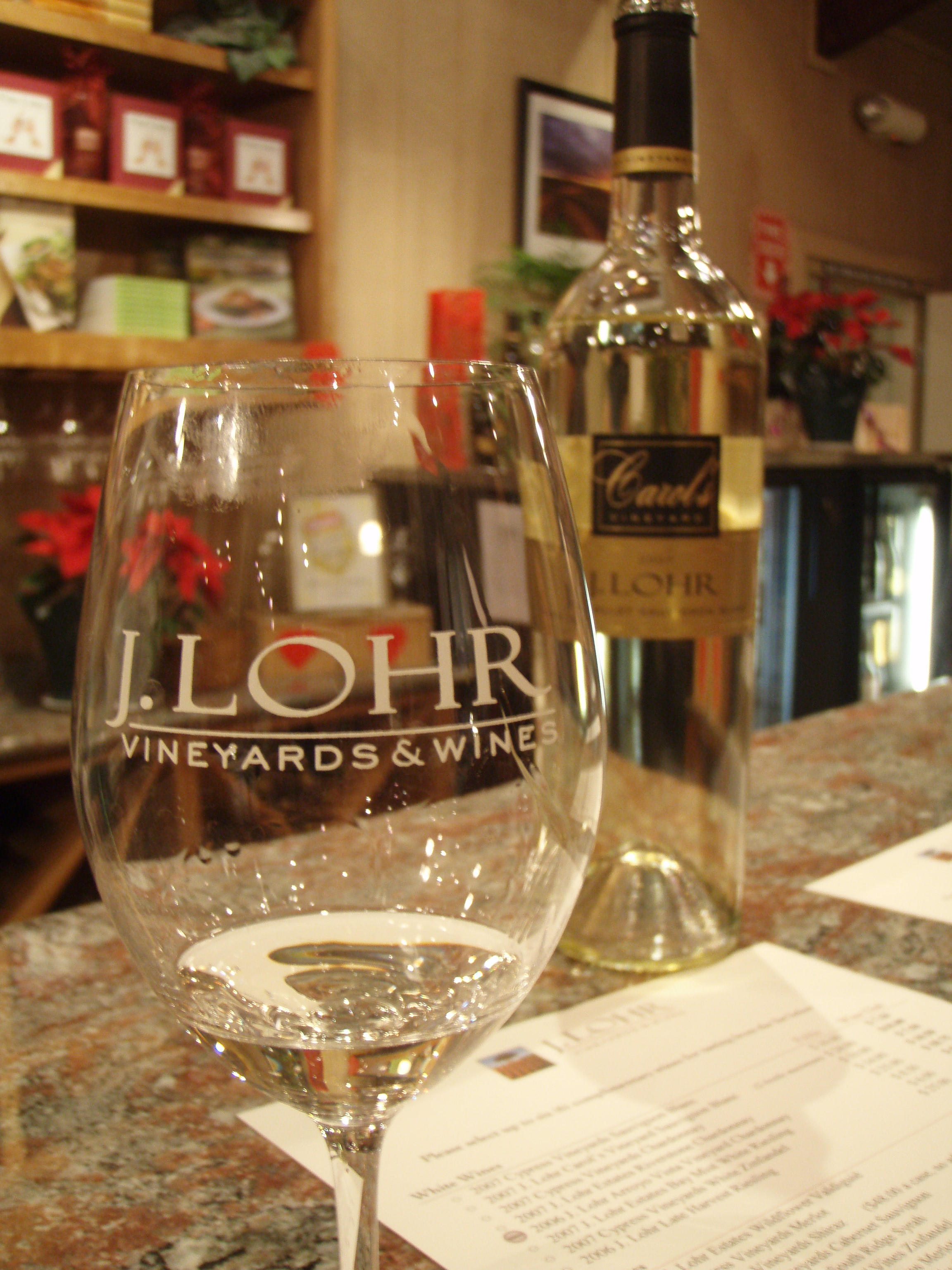 A glass of Sauvignon blanc wine from the California winery of J. Lohr